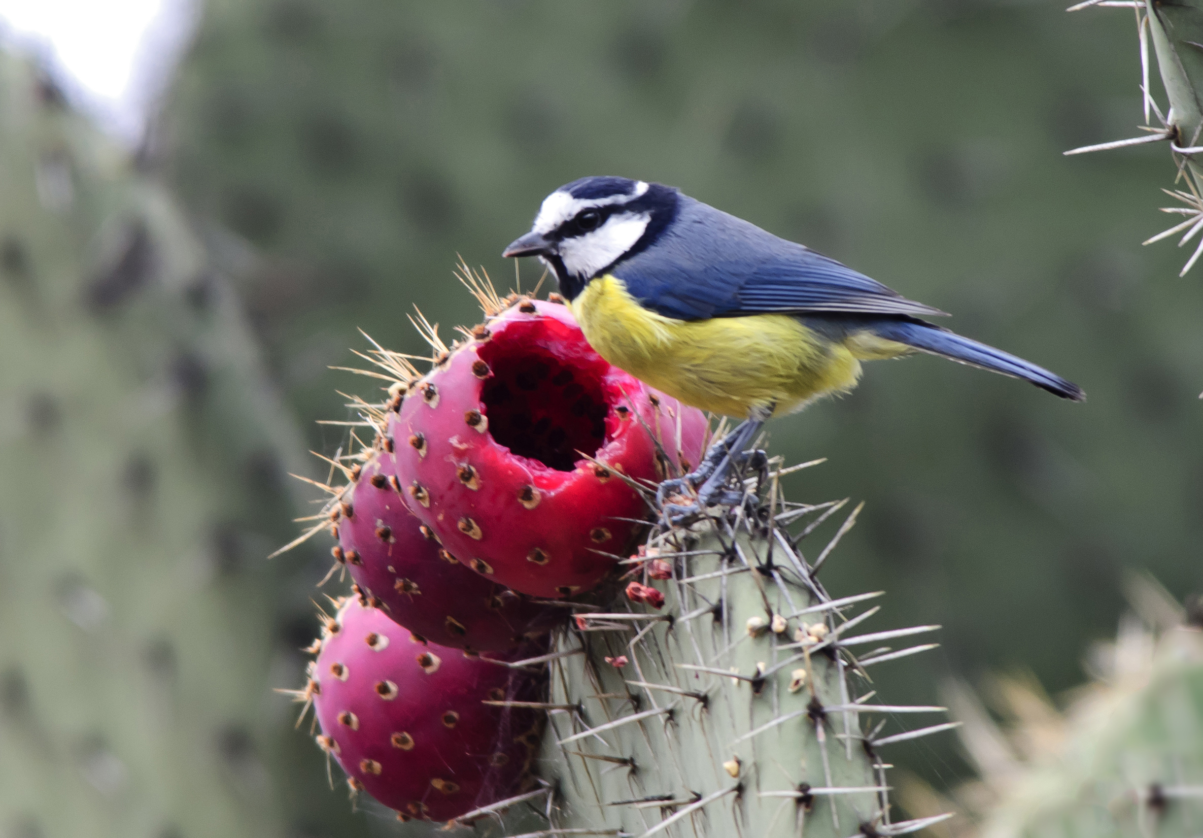 I only take photos from birds in freedom without any decoy